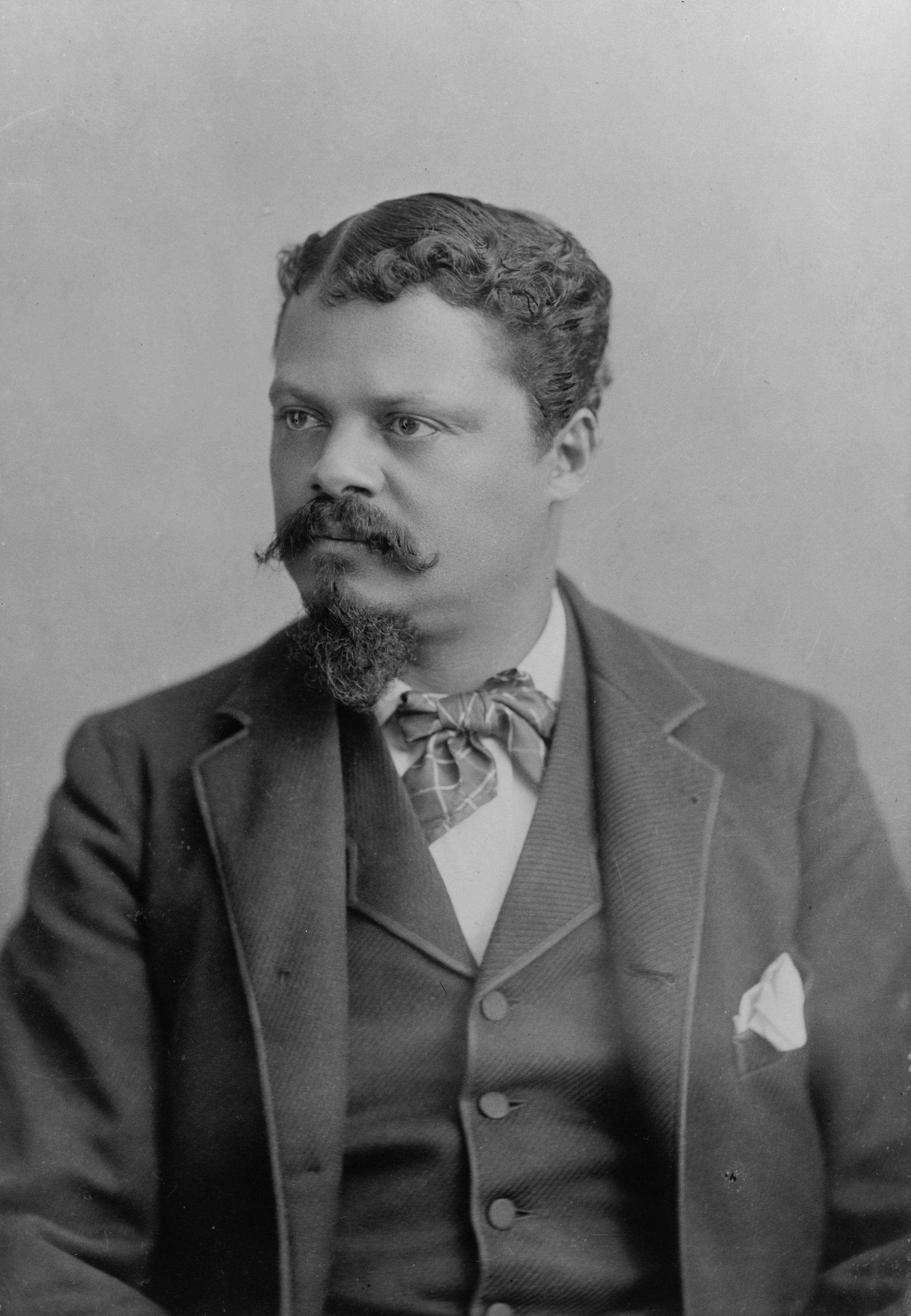 Title: Thomas E. Askew, self-portrait Abstract: Photo shows photographer Thomas E. Askew of Atlanta, Georgia, who took many of the portraits and views in album titled Types of American Negroes, compiled by W.E.B. DuBois. Physical description: 1 photographic print : gelatin silver. Notes: Title and photographer attribution based on research by D. Willis in Small nation of people.; Untitled photo in album (disbound): Types of American Negroes, compiled and prepared by W.E.B. Du Bois, v. 3, no. 201.; Published in: Small nation of people ... / Library of Congress ... New York: Amistad, 2003, p. 58-59.; Forms part of: Daniel Murray Collection (Library of Congress).; Published in: Photography on the color line / Shawn M. Smith. Durham: Duke University Press, 2004, p. 5.; B&w copy prints for LOT 11930 are provided as surrogates of original photographs for reference use in P&P Reading Room. A microfilm surrogate is also available.